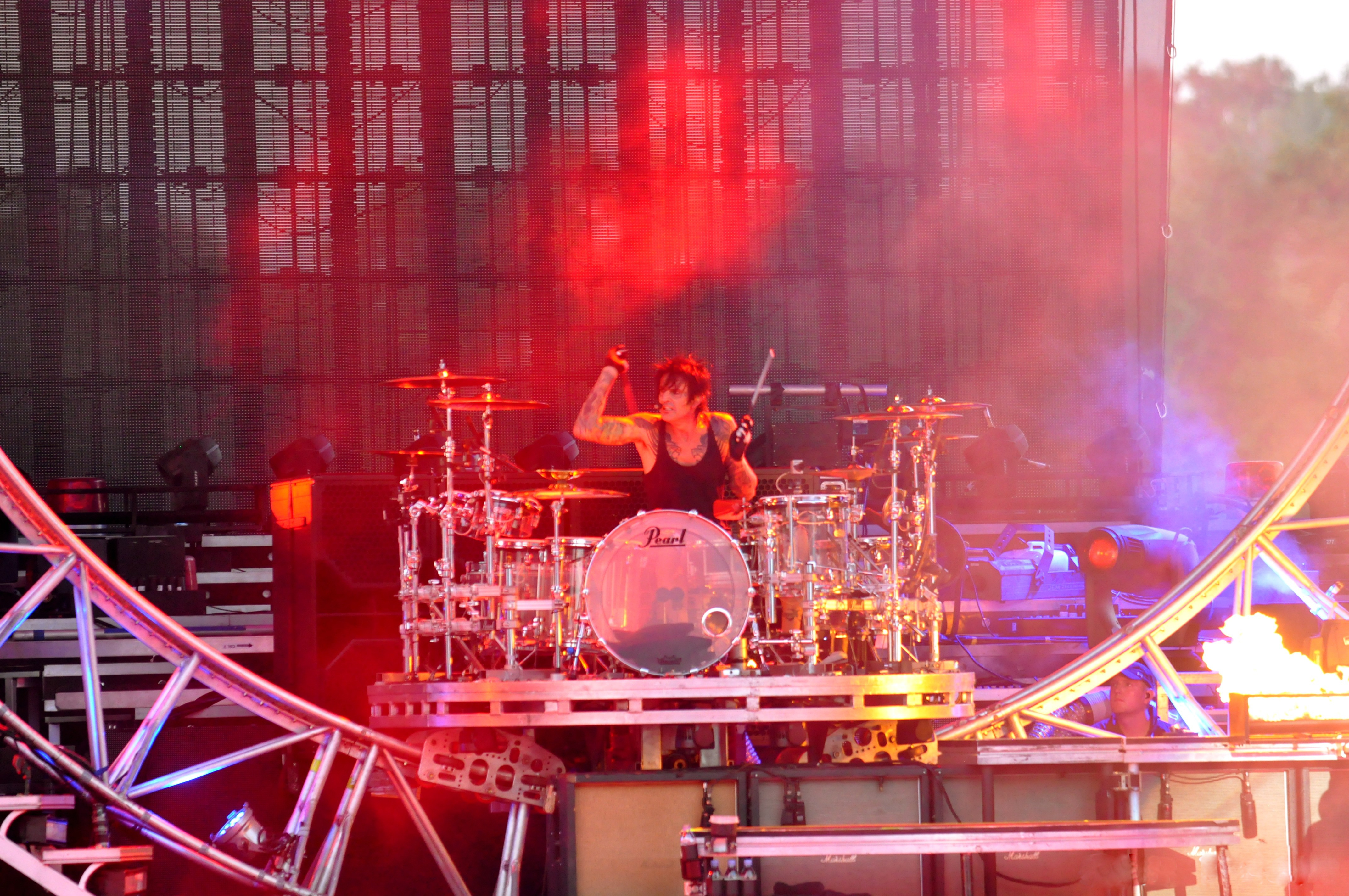 Motley Crue -DSC_1304- 8.29.12